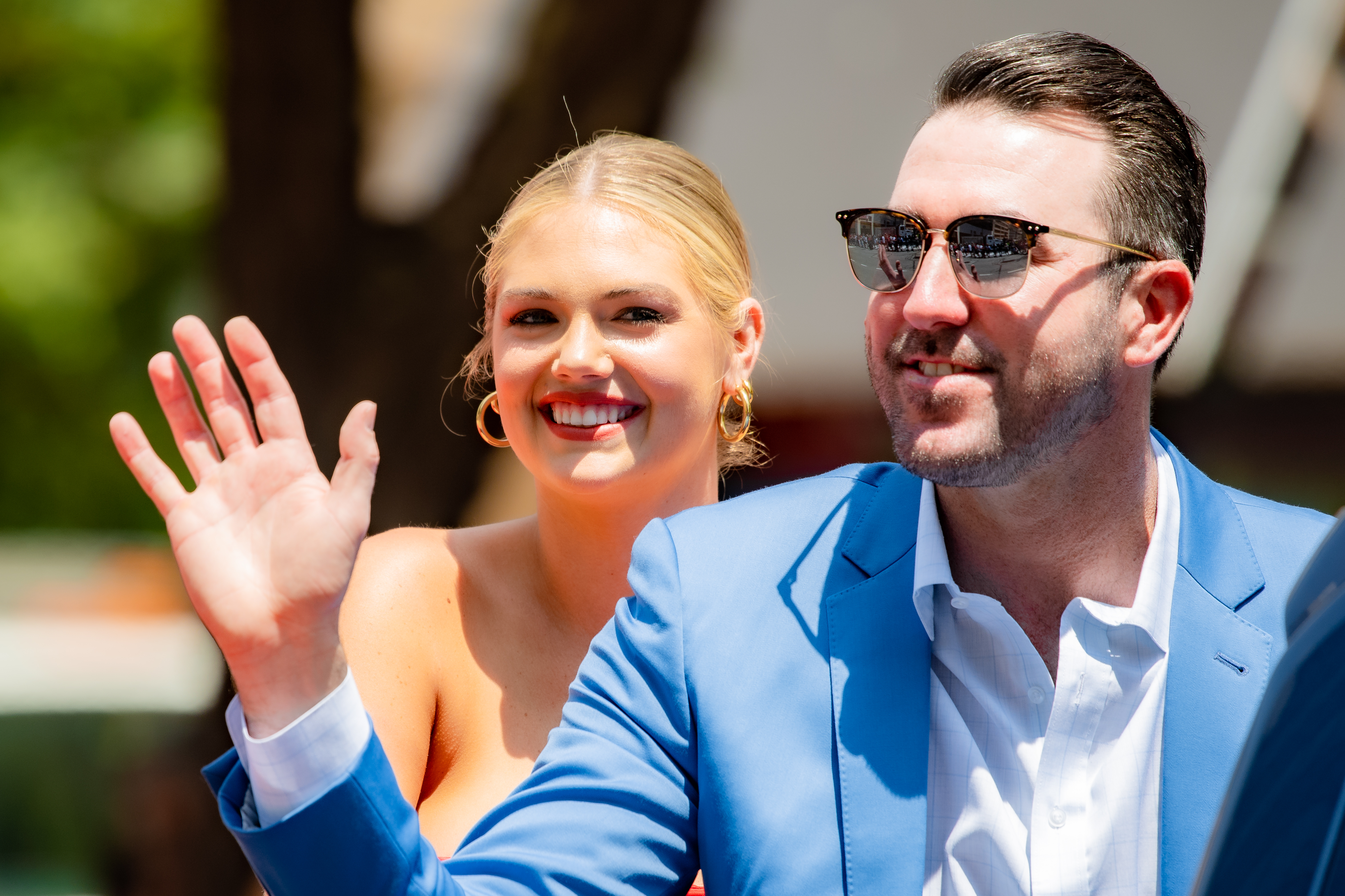 Kate Upton and Justin Verlander during the 2019 Major League Baseball All-Star Parade in Cleveland